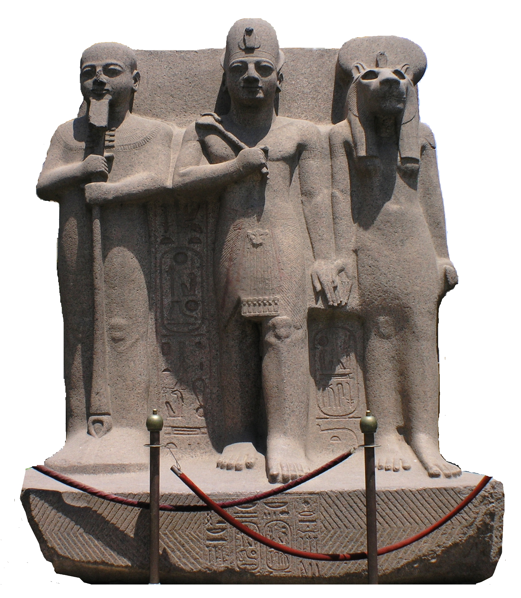 Reliefs of Ramses II, Ptah and Sekhmet. (Cropped version of File:Egyptian Museum - Statue in front of trio of figures.JPG)